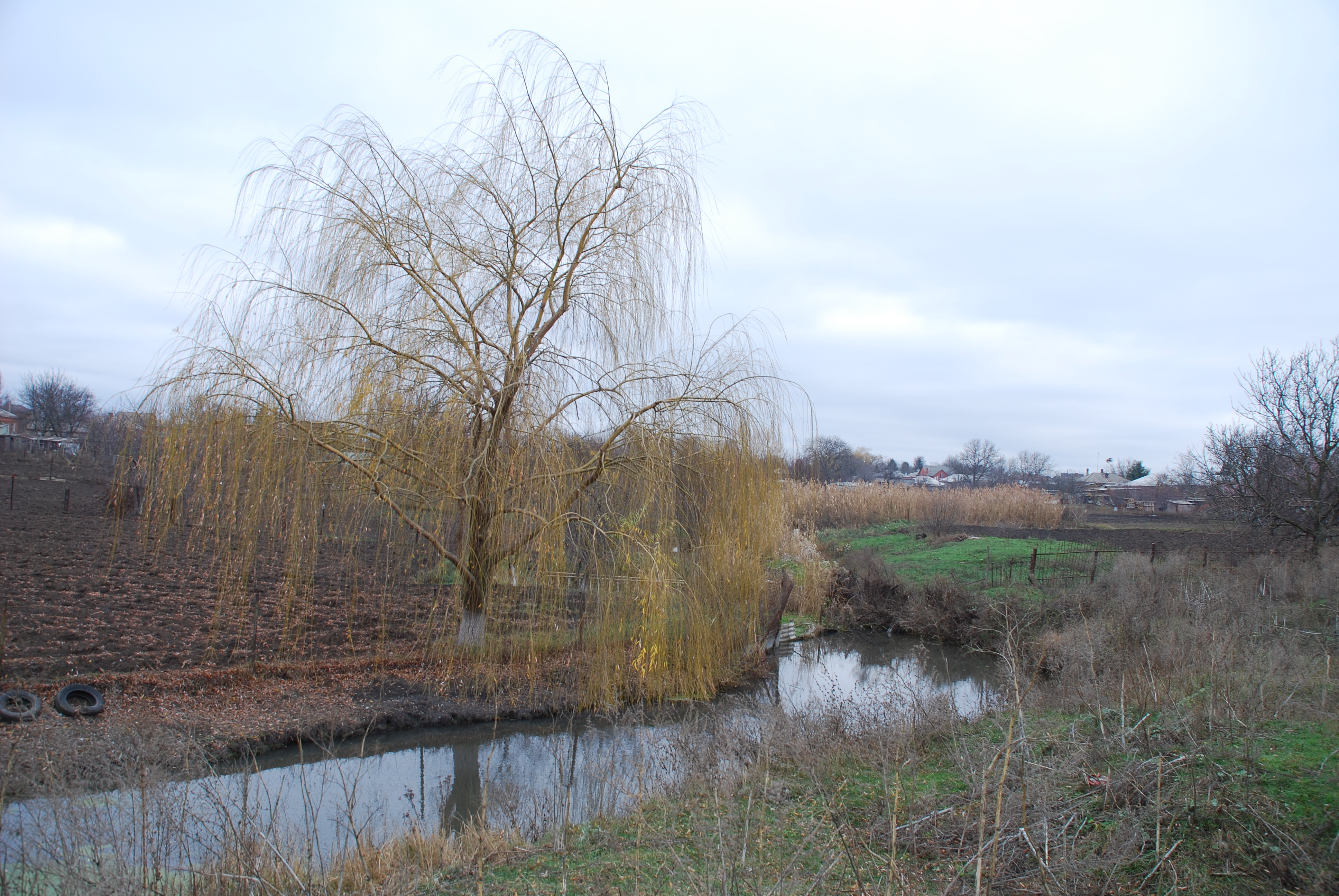 Sukhoy Chaltyr River in Krasny Krym.